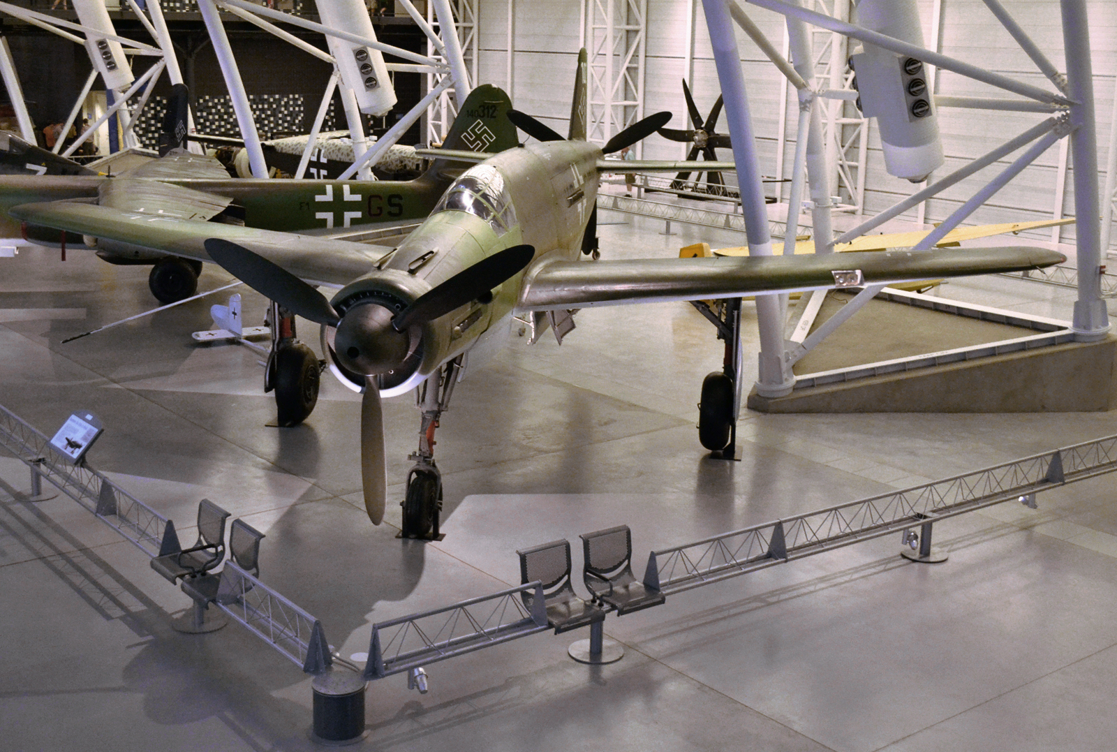 Dornier Pfeil